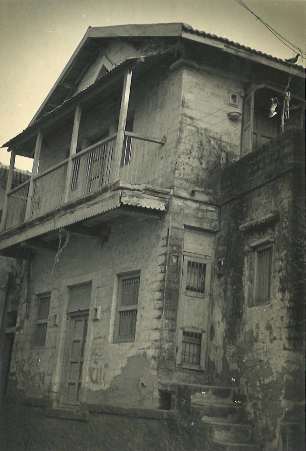 Birth place of Gujarati writer Chunilal Madia in Dhoraji, Gujarat